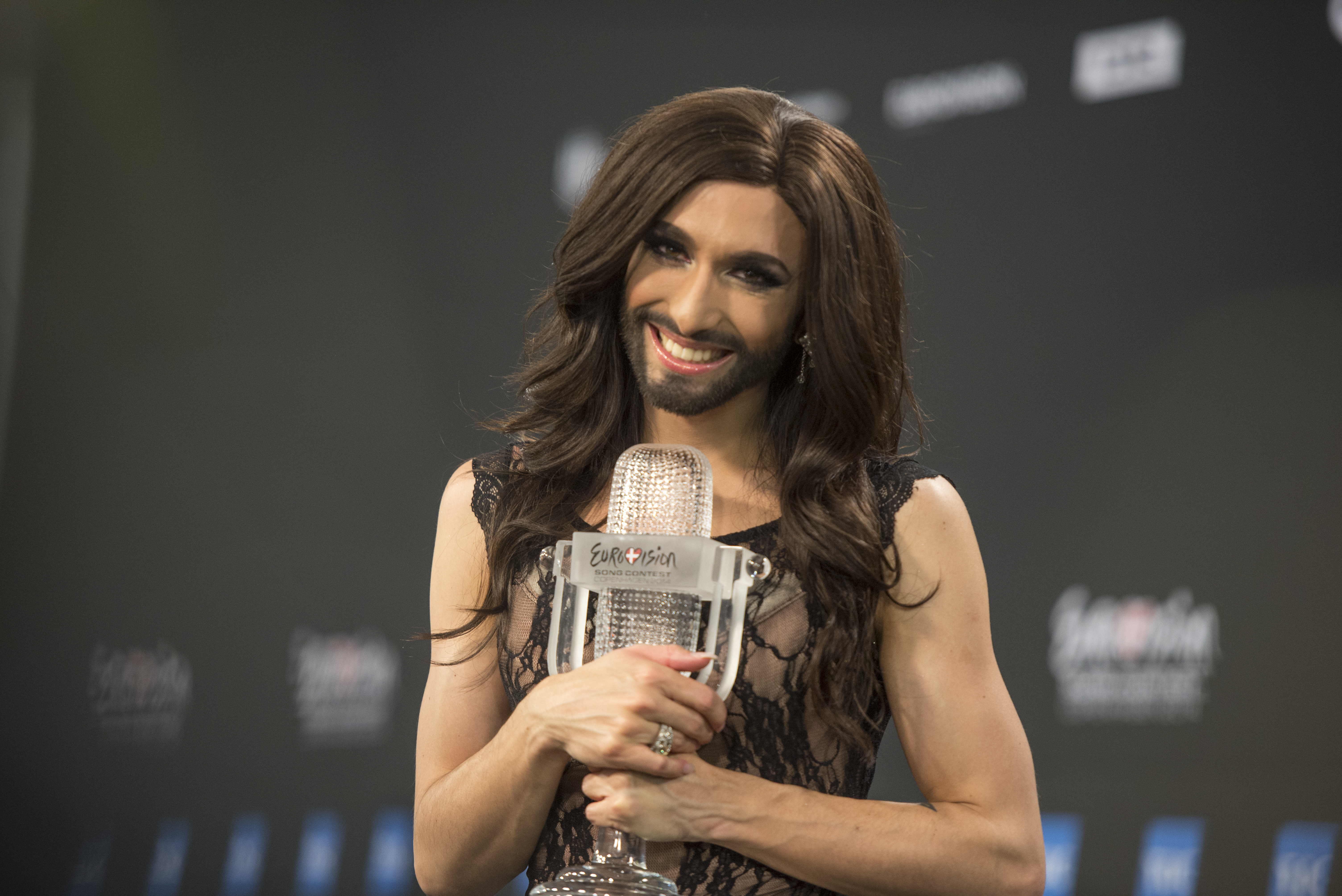 Conchita Wurst at the winners press conference, right after winning the Eurovision Song Contest 2014 Copenhagen. (Help translate this text)